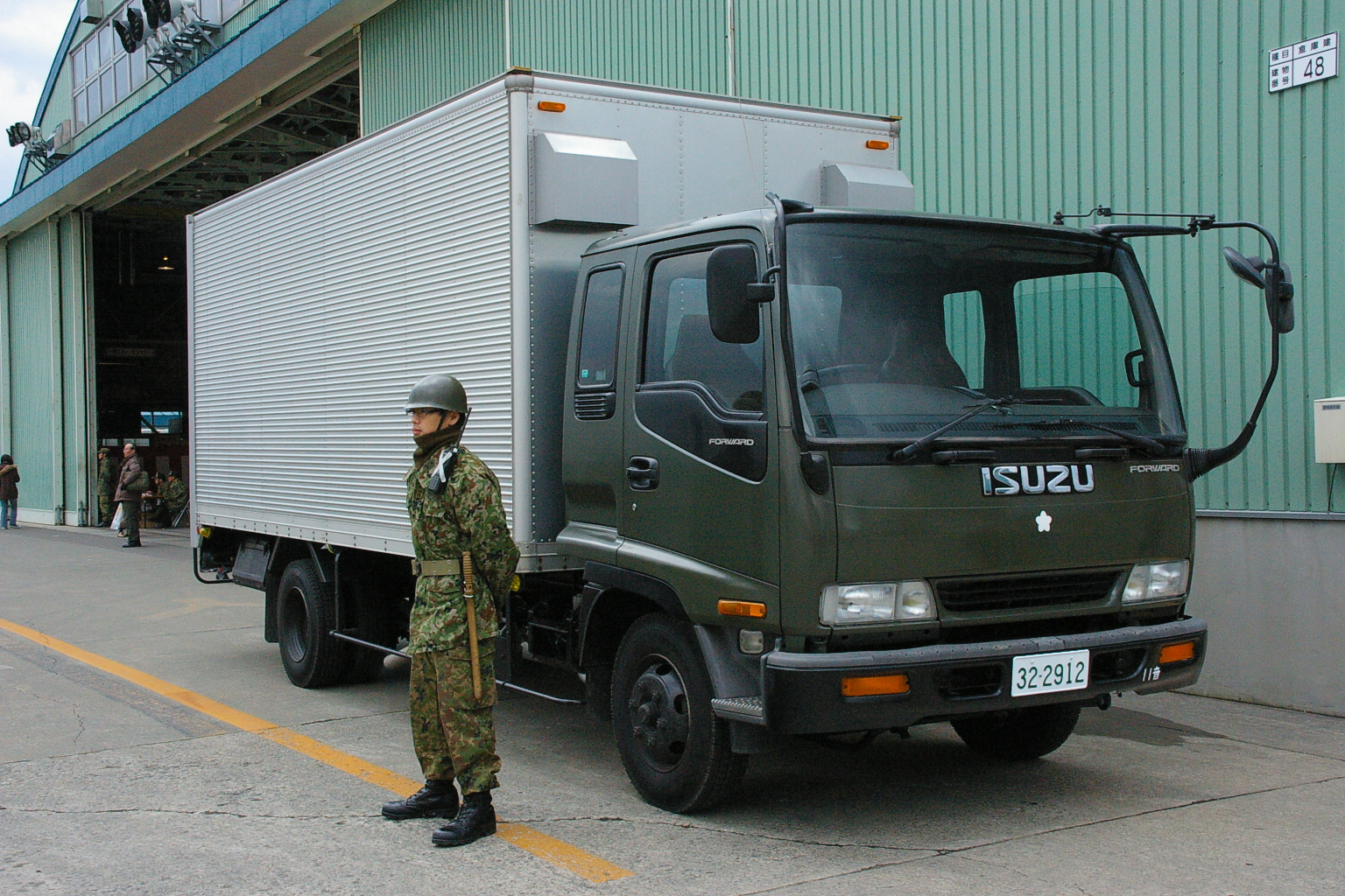 JGSDF Gyoumu track Isudu Forward, 11st band.